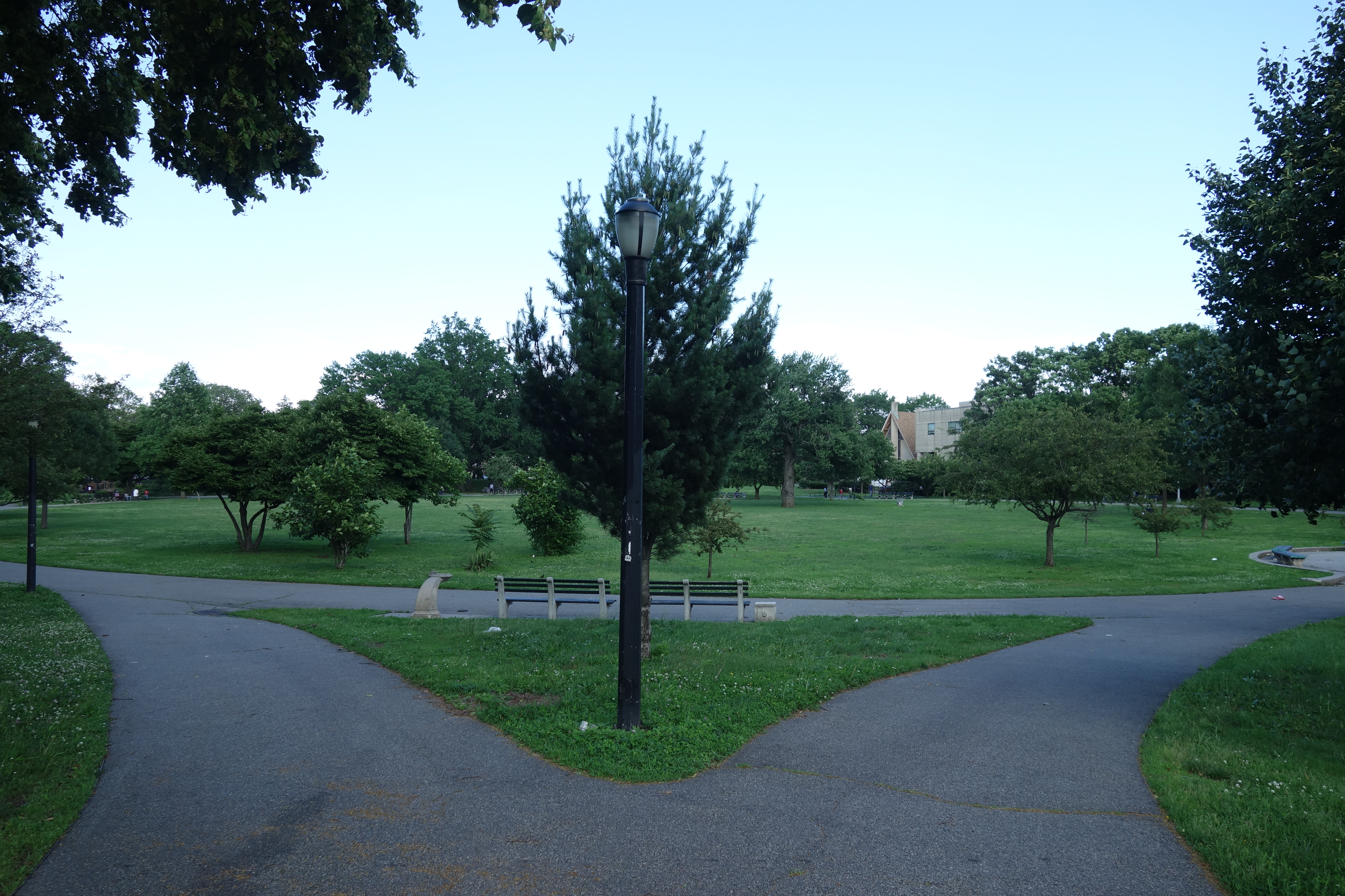 The entrance to the main section of St. Albans Park, at the southeast corner of Merrick Boulevard and Sayres Avenue in St. Albans, Queens. This section of the park features a large paved oval path with an open field in the center, similar to Marine Park in Brooklyn. Meanwhile, it's open edges and well-spaced vegetation give it a more suburban feel, comparable to Mineola Memorial Park in Nassau County.